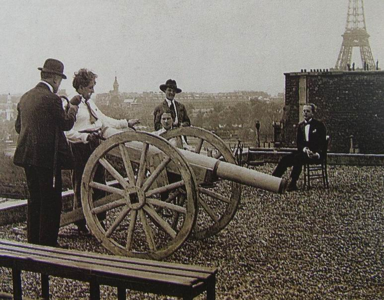 Eric Satie & Francis Picabia, Rene Clair & Jean Biorlin (prologue de Relache) - nov.1924